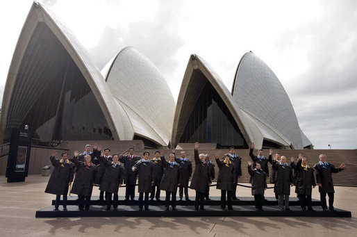 President George W. Bush joins fellow APEC leaders for the official portrait Saturday, Sept. 8, 2007, in front of the Sydney Opera House. White House photo by Chris Greenberg.